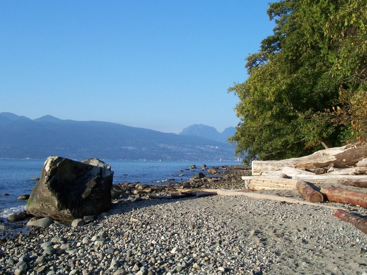 This picture was taken by Bart Braun on August 11, 2005 at 7:10pm. It is looking north from Acadia Beach just north of the watchtowers. This picture was taken by Bart Braun on August 11, 2005 at 7:10pm. It is looking north from Acadia Beach just north of the watchtowers.